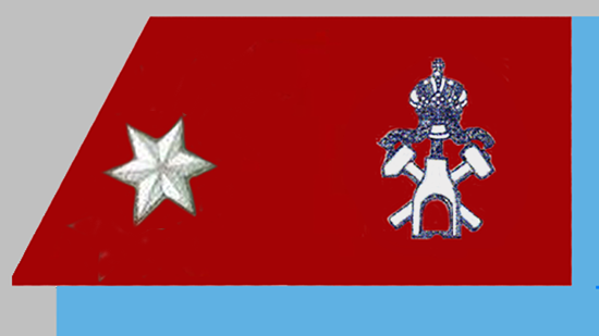 collar badge of the k.u.k Sappeurs / Lieutenant- special badge for drilling team